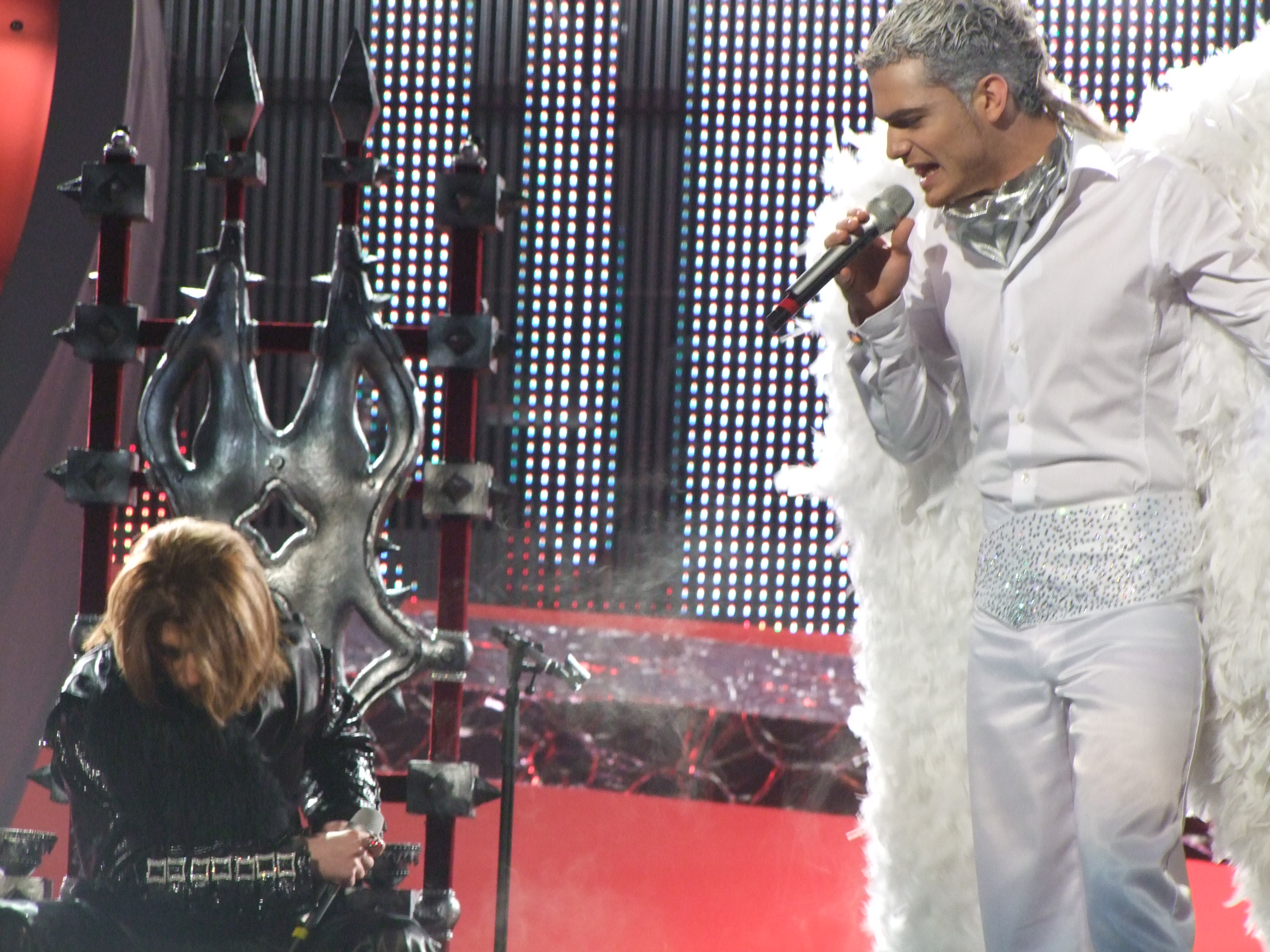 Eurovision Song Contest 2008, 1st semifinal Azerbaijan: Elnur & Samir - Day after day